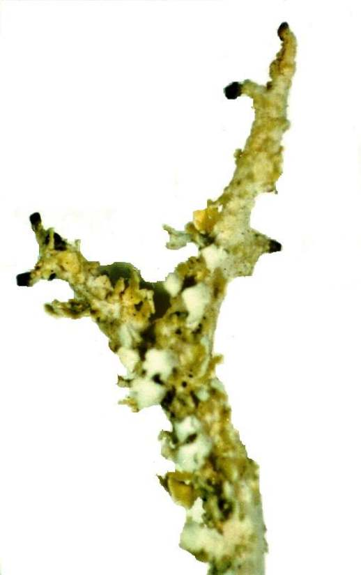 Cladonia scabriuscula (Delise) Nyl. (photograph of a herbarium specimen taken through a dissecting microscope (x18) showing the tip of podetium) Growing in moss in a damp woods near lookout tower at the end of Trail's End Road, near the confluence of the Montreal River with Lake Superior, Ontario, Canada; collected and identified by Richard E. Riefner (No. 81-313, 27 Jun 1981); specimen is now in the Lichen Herbarium of the New York Botanical Garden.